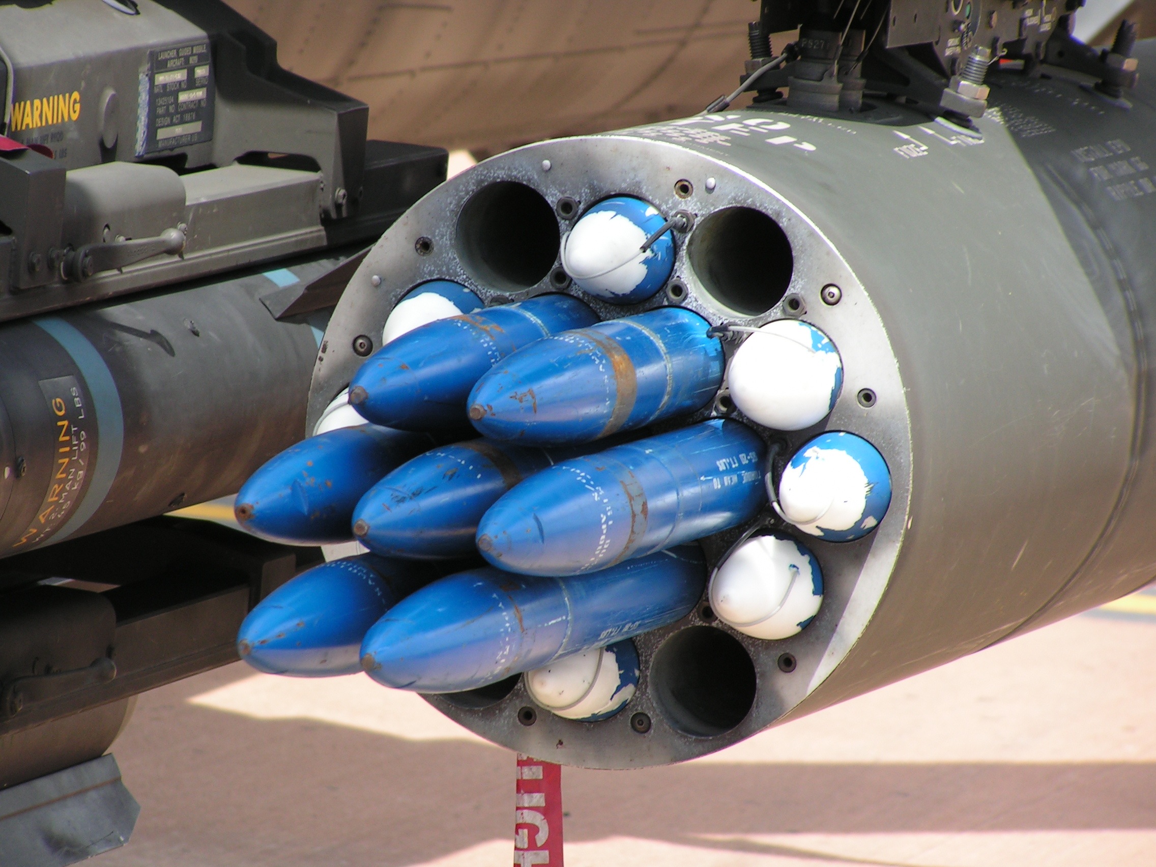 Hydra 70 rockets in an M261 launch pod on a Dutch AH-64 Apache. On display at the RIAT2007.